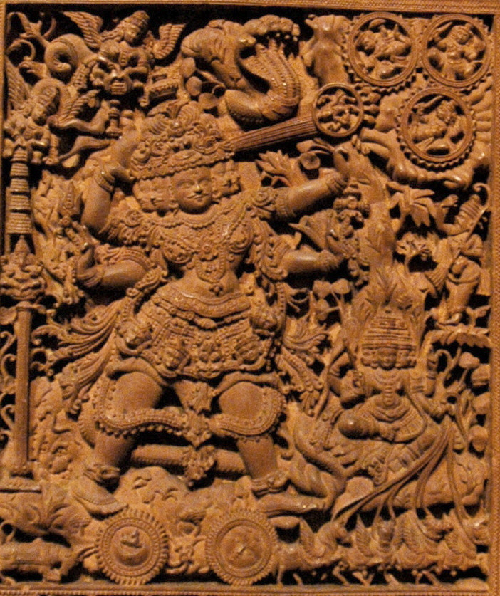 From the Info Placard: N. Sivappa Album Cover with Shiva as the Destroyer of the Tree Cities of the Demon (Tripurantaka) India, Karanataka, Mysore, Sagar, c. 1875-1900 Sandalwood with silver fittings "This exquisitely carved sandelwood album cover was probably made for an illustrated manuscript of a Hindu religious text. The album cover epitomizes the sophisticated sandelwood carving produced by the renowned families artists working in the Mysore region of southern India, which was regarded by contemporary art historians and critics as the finest wood carving in all of India. The primary panel of the intricately carved front cover depicts the Hindu god Shiva in his major iconic form of Tripurantaka, the Destroyer of the Three Cities of the Demons. The surrounding regeisters and the cover's spine are also deeply carved with additional Hindu mythological figures, animals, and foliate designs."